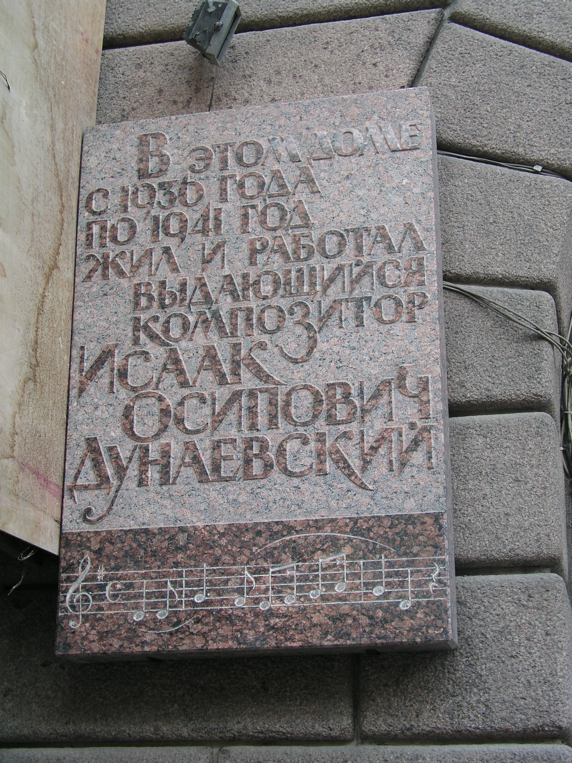 memorial plate for Dunajewski in Saint Petersburg, Gorochowaja street, b. 4